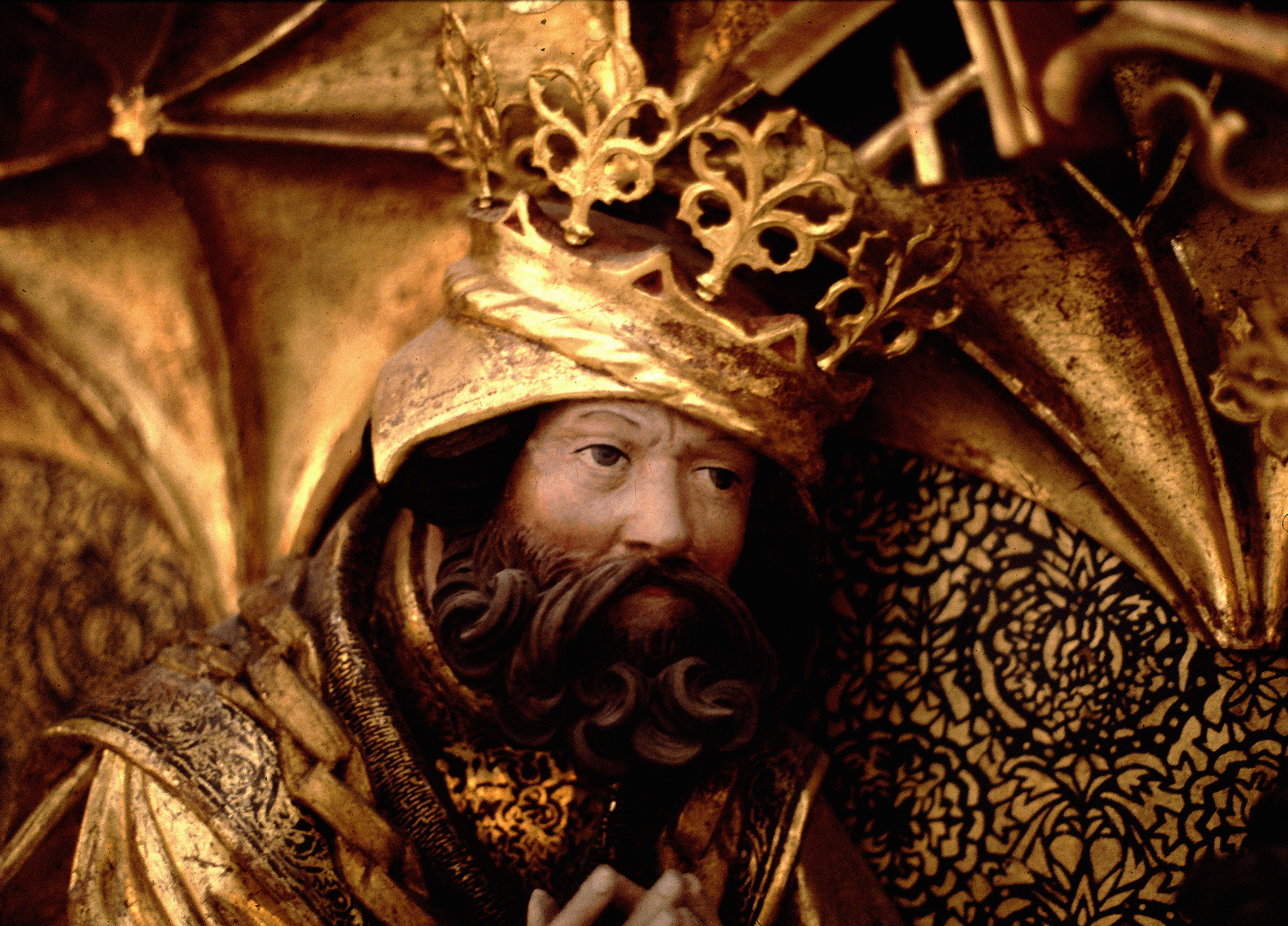 Christian II, king of Denmark 1513-1559. Sculpture from about 1513 in the Dome of Odense, Denmark.